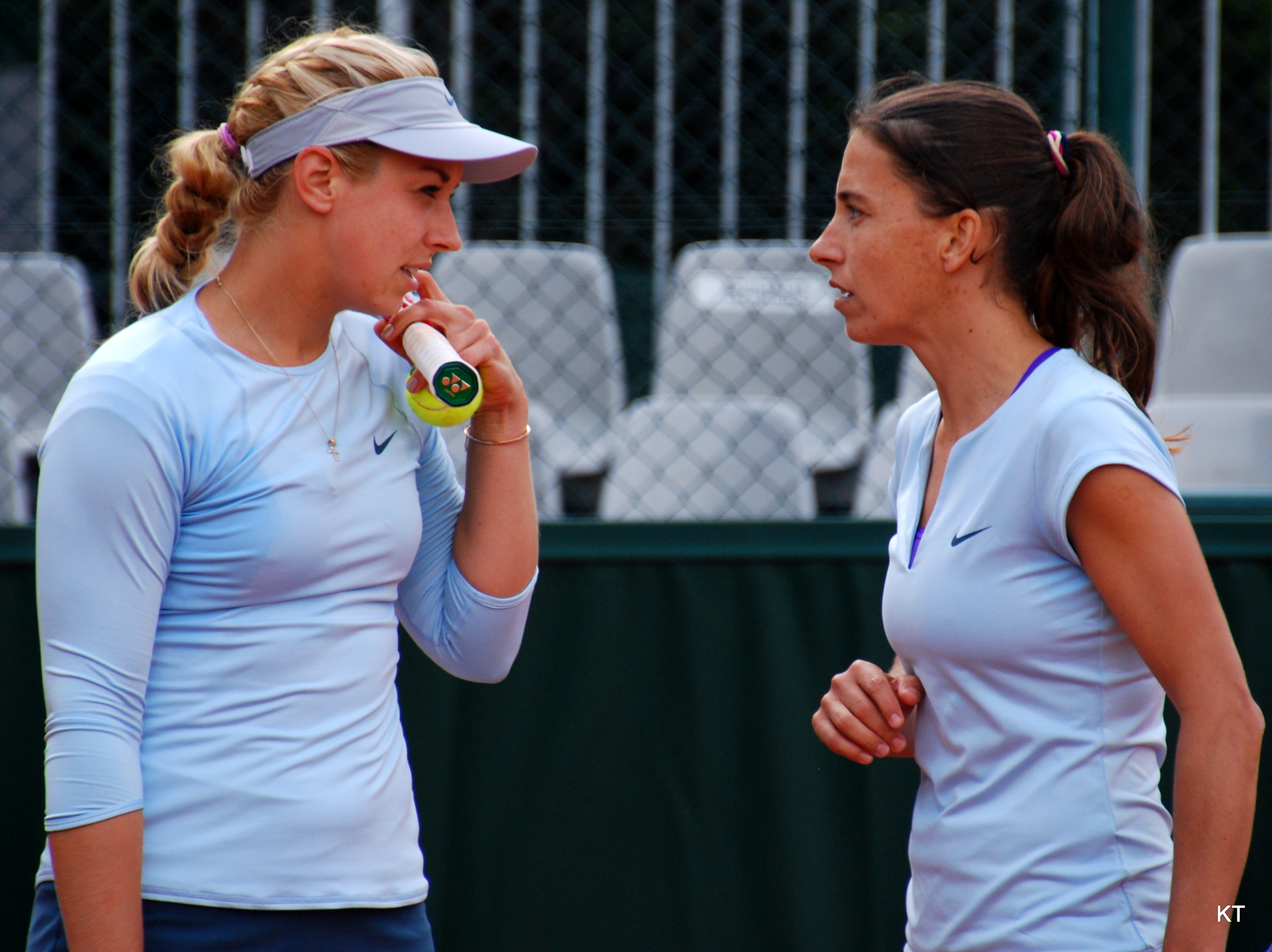 Janette Husarova (SVK) & Sabine Lisicki (GER) in a double match at the 2013 French Open.